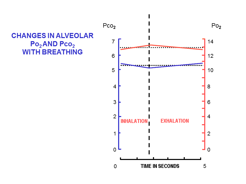 The changes in the composition of the alveolar air during normal breathing at rest. The scale on the left indicates tha partial pressures of carbon dioxide in kPa, while that on the right indicates the partial pressures of oxygen, also in kPa.